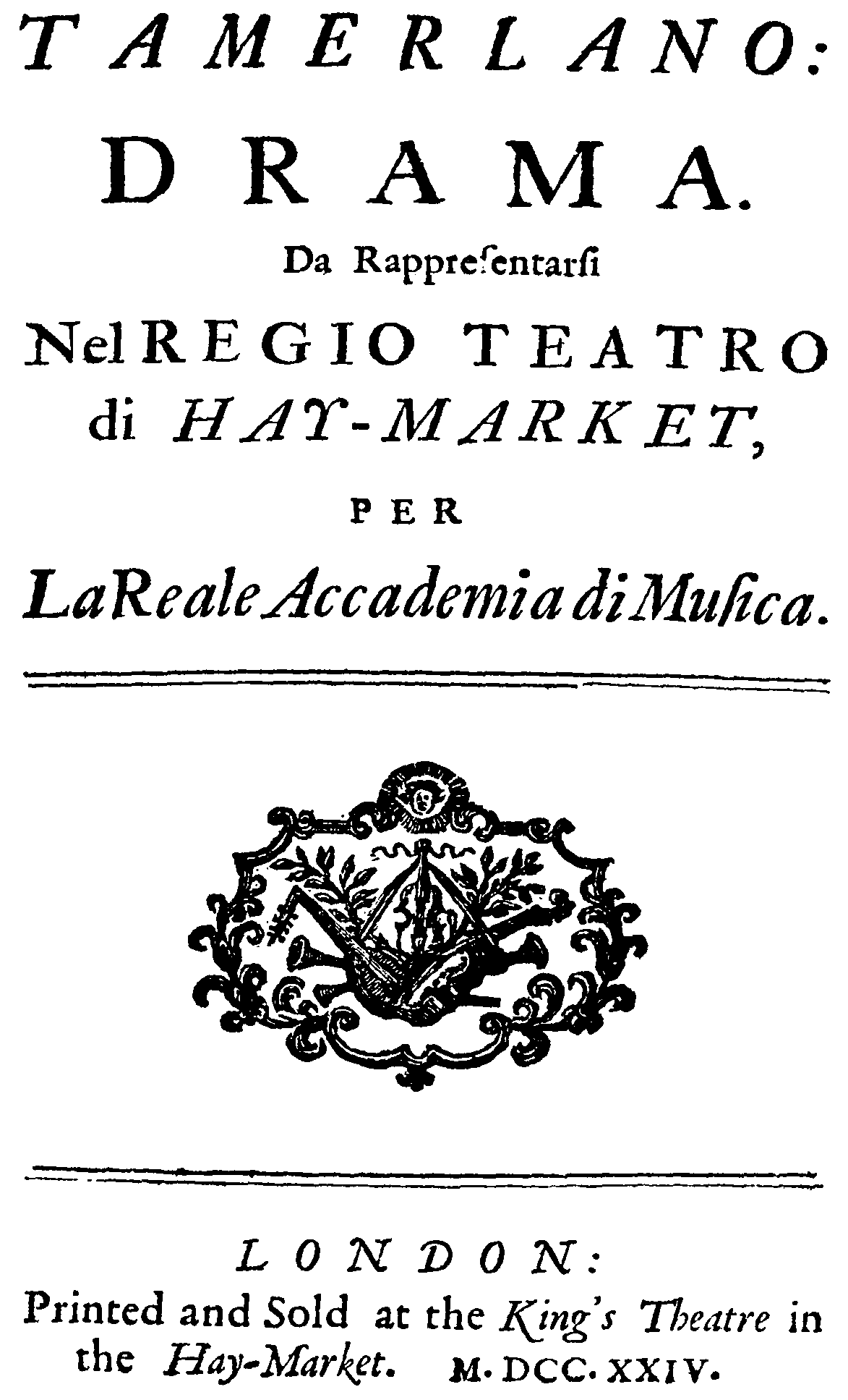 Georg Friedrich Händel - Tamerlano - title page of the libretto - London 1724